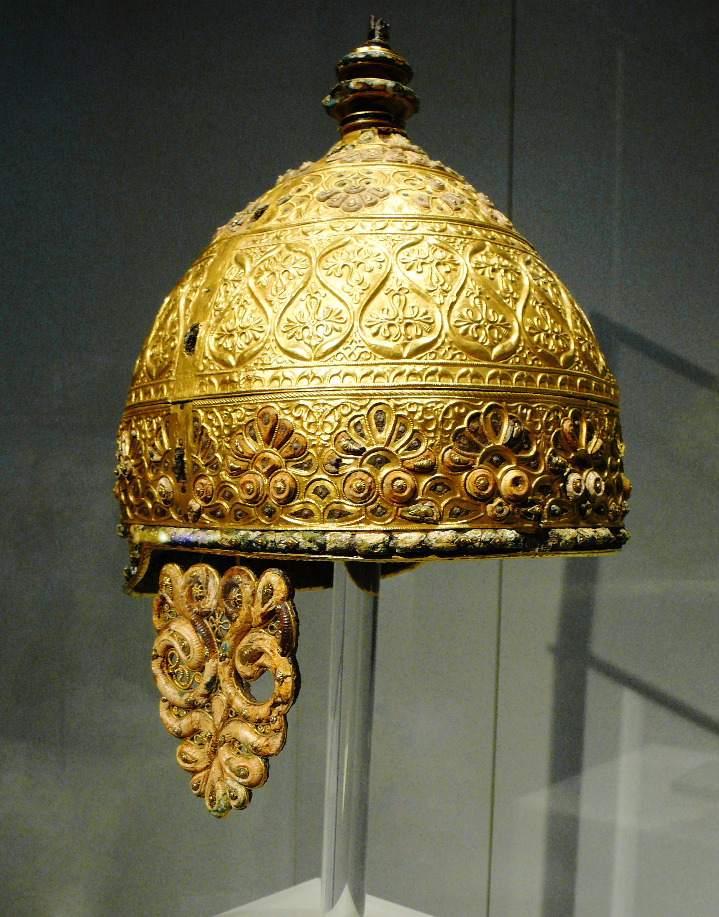 Agris, France. About 350 BC Musée d’Angoulême This impressive piece of art was buried in a cave in Agris, western France. The entire cap, neck guard and cheek guards were all cluttered with lavish gold tendril and leaf design. Together with the gold, red coral inlays provide n effectual contrast. Kunst der Kelten, Historisches Museum Bern. Art of the Celts, Historic Museum of Bern.